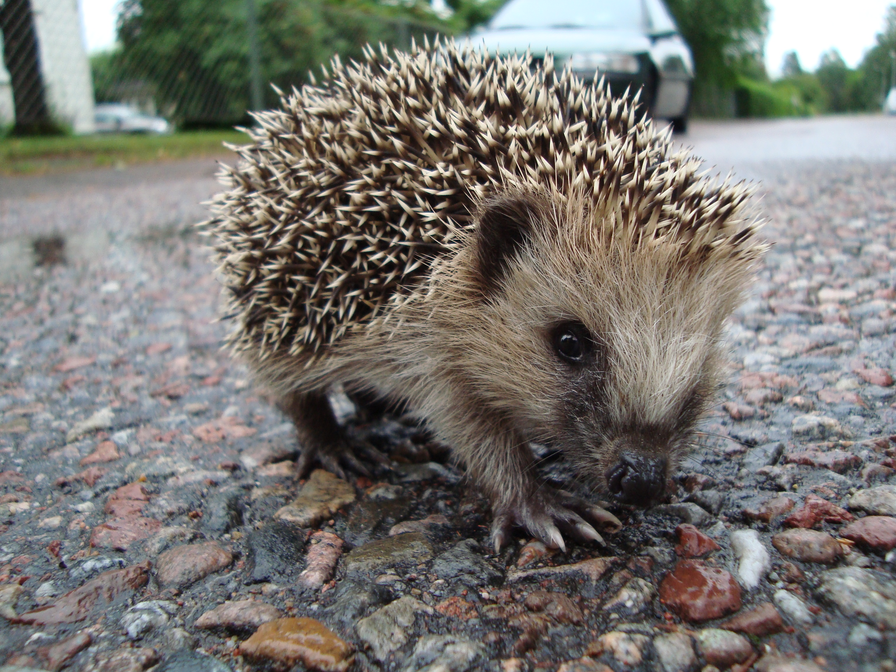 European hedgehog (Erinaceus europaeus). Avesta, Sweden. 1997 Opel Vectra in background.